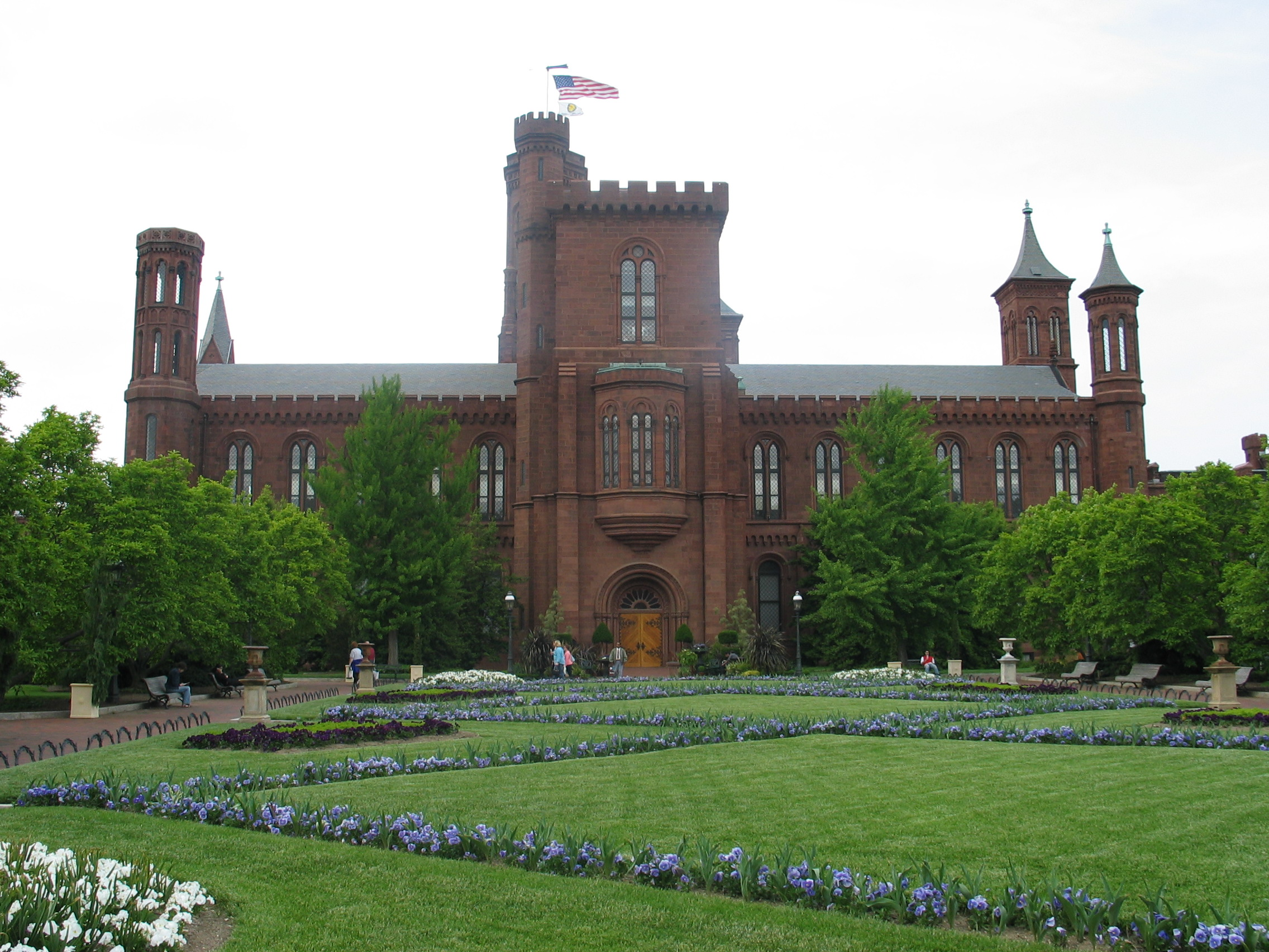 Smithsonian Institute "castle". Taken by User:Isomorphic during the Washington D.C. Wikipedia field trip on May 7, 2005. Licensed under the GFDL or any Creative Commons license that strikes your fancy.